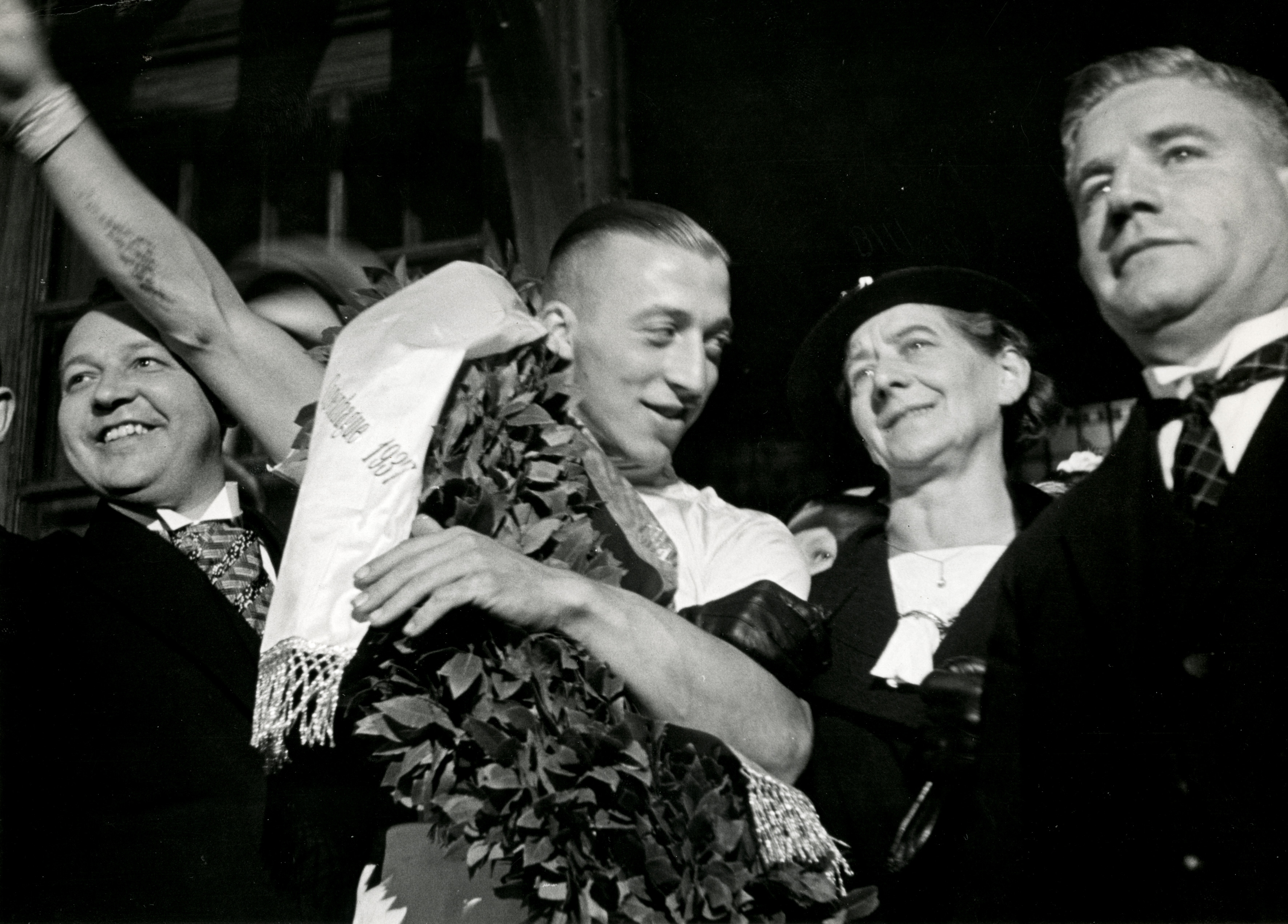 Dutch cyclist champion amateurs Jef van de Vijver is honoured in his home town Roosendaal, after winning the world championship sprint amateurs in Kopenhagen, arriving after a long journey by train. The Netherlands, 1937.